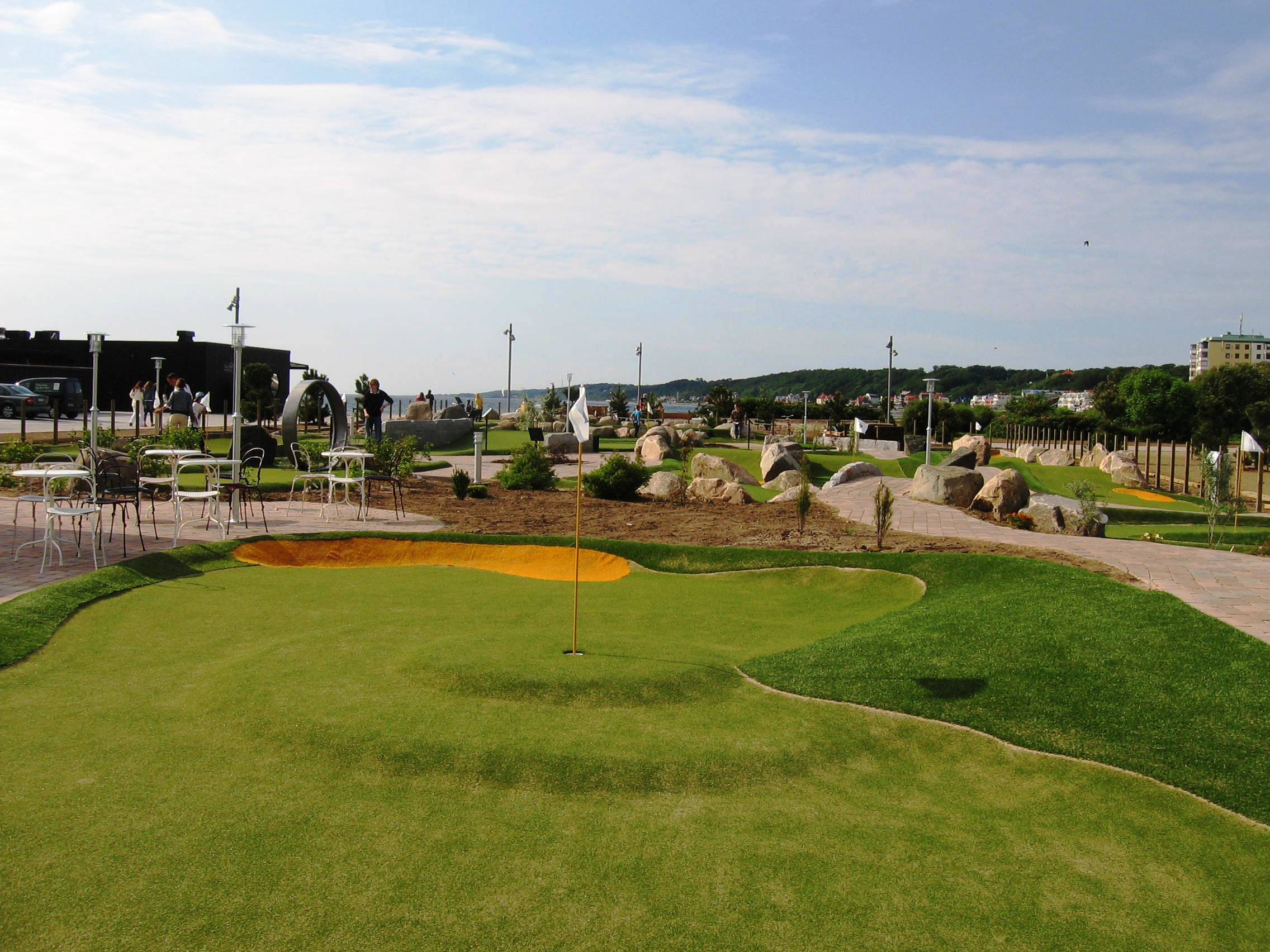 Mini golf course, Helsingborg, Sweden